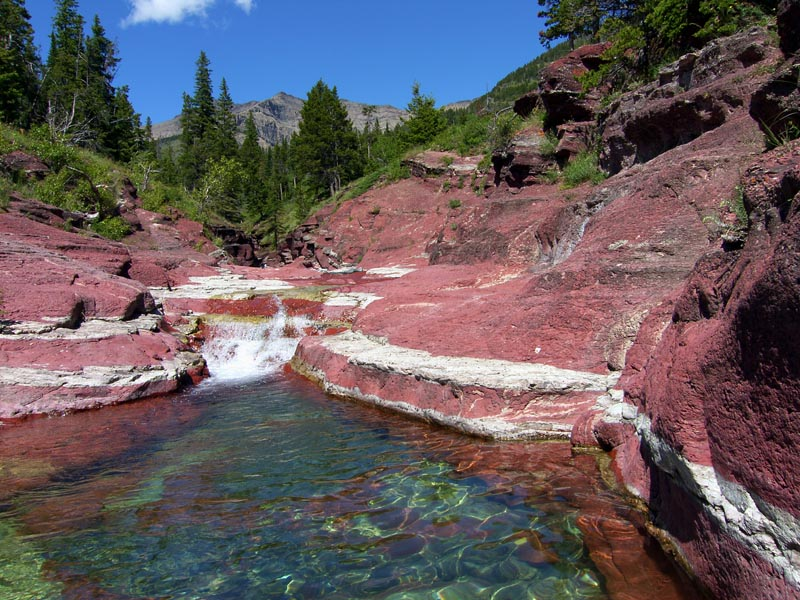 Red Rock Canyon Waterton National Park, Alberta, Canada